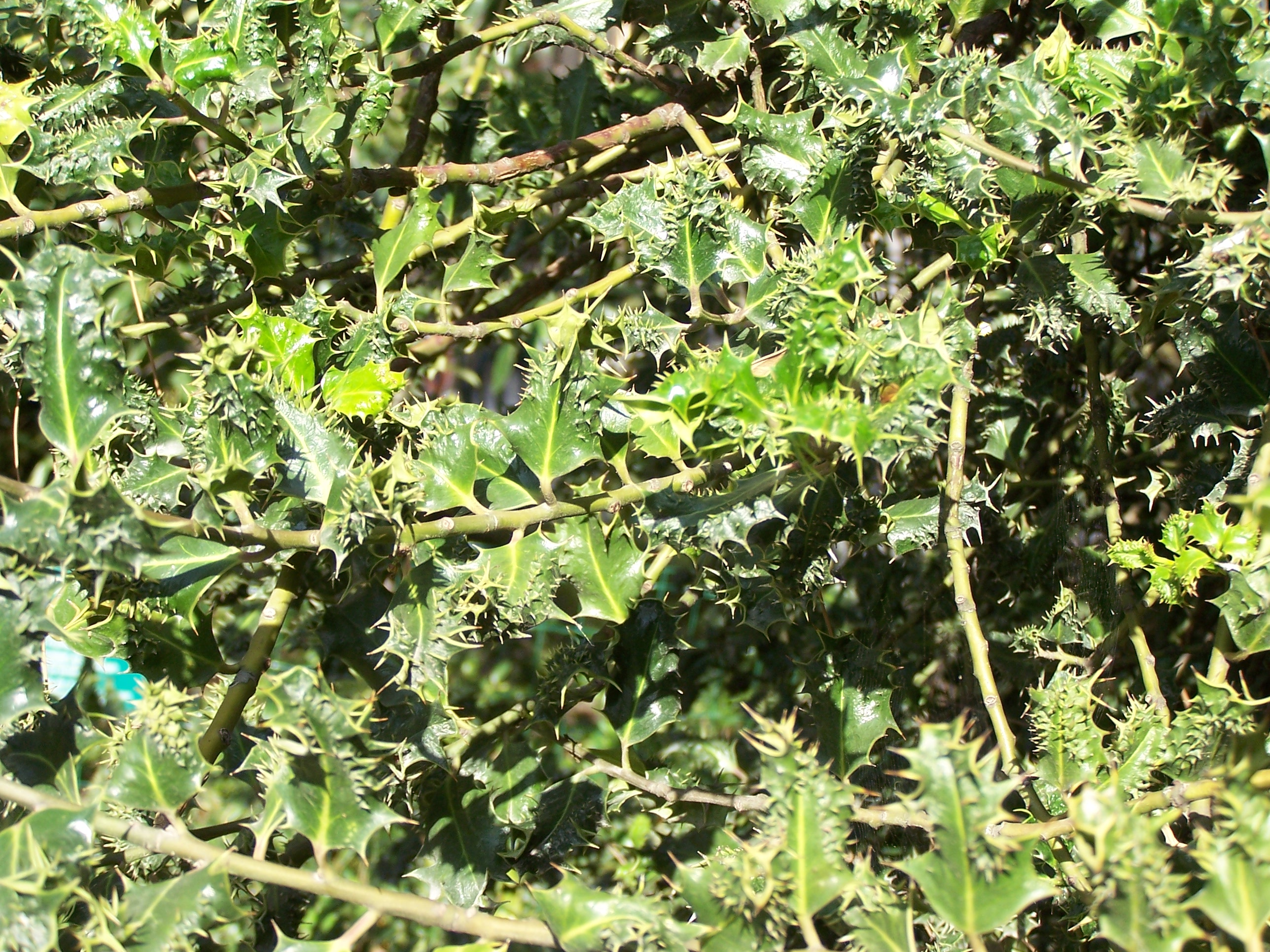 Leaves of Ilex aquifolium ferox species at the Arènes de Lutèce in Paris